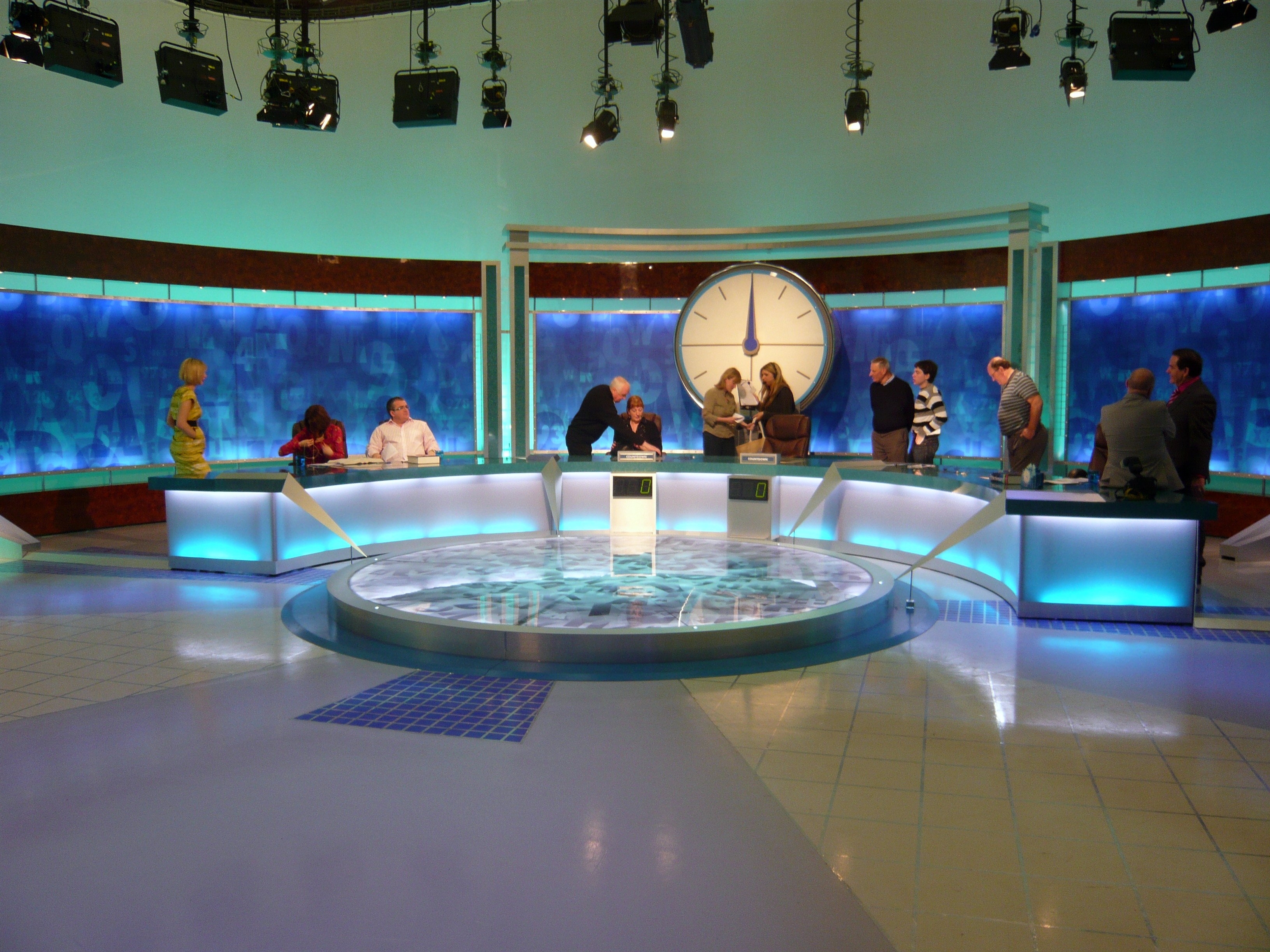 Countdown studio, Kirkstall Road, Leeds